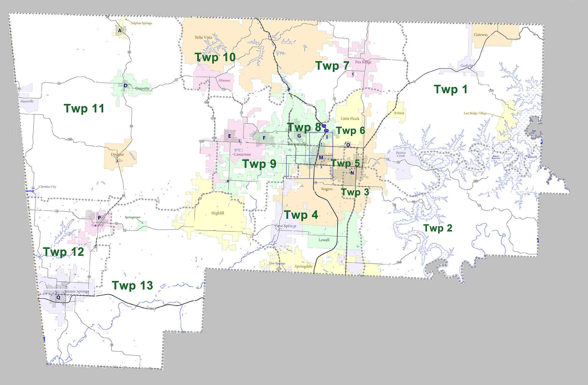 Large map showing townships in Benton County, Arkansas. Modified from US census map (for 2010 census) for Benton County, Arkansas